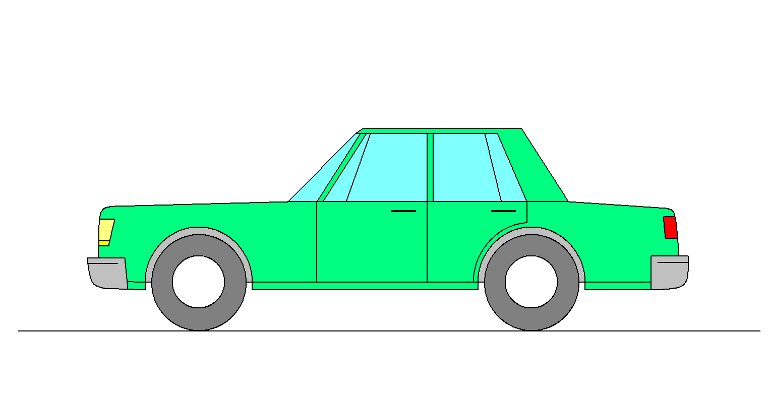 Cartype Sedan or Limousine